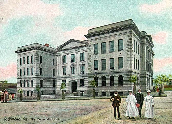 Vintage Postcard of the Memorial Hospital in Richmond, Virginia; on the National Register of Historic Places [cropped from original].